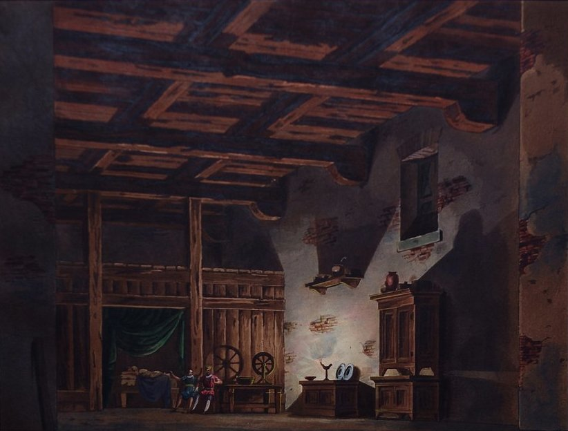 "Stanza con una specie d'arcova". Set design by Alessandro Sanquirico for Stefano Pavesi's opera "La gioventù di Cesare" (libretto by Felice Romani), presented at La Scala, Milan, 1817. Aquatint engraving with original hand color, after a drawing by Alessandro Sanquirico. Original Italian title : "Stanza con una specie d'arcova, sul davanti soffa con tavolino, lumi, sedie, ecc. Questa scena fu esequita pel Melodramma eroicomico, La Gioventu di Cesare, posto in musica dal Sig Stefano Pavesi, e rappresentato nell I. R. Teatro alla Scala. La Primavera dell'Anno 1817" .